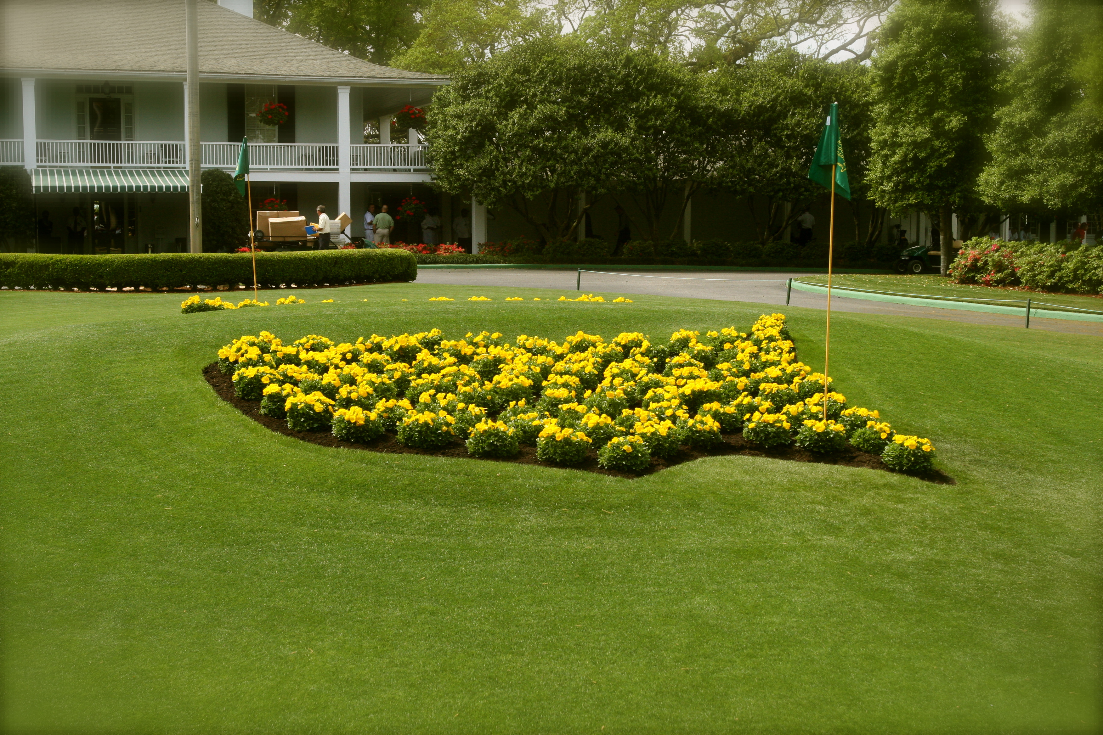 The logo for the Masters Tournament made of flowers, in front of the clubhouse of the Augusta National Golf Club.